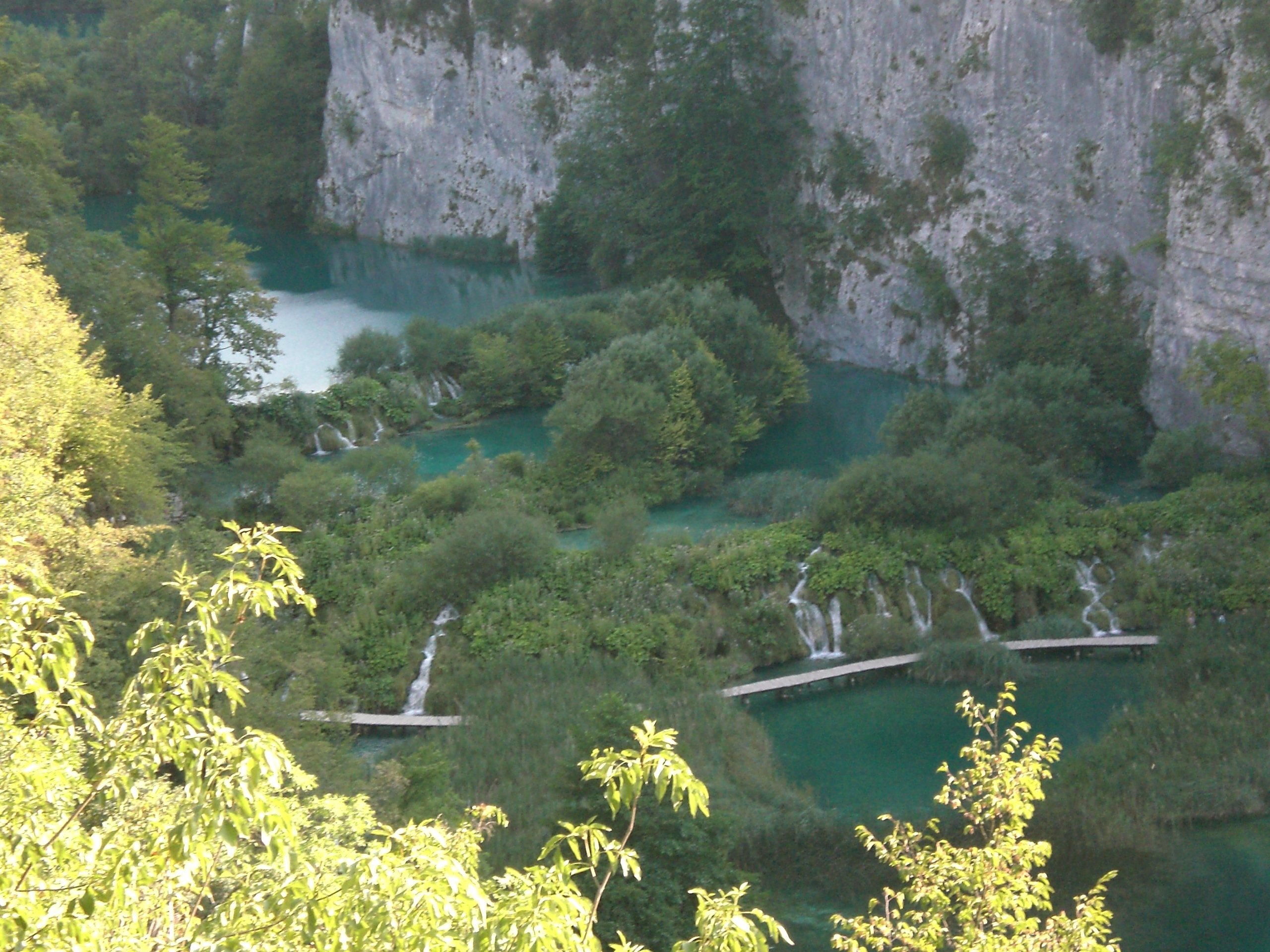 Path and cascades in the Plitvice Lakes National Park